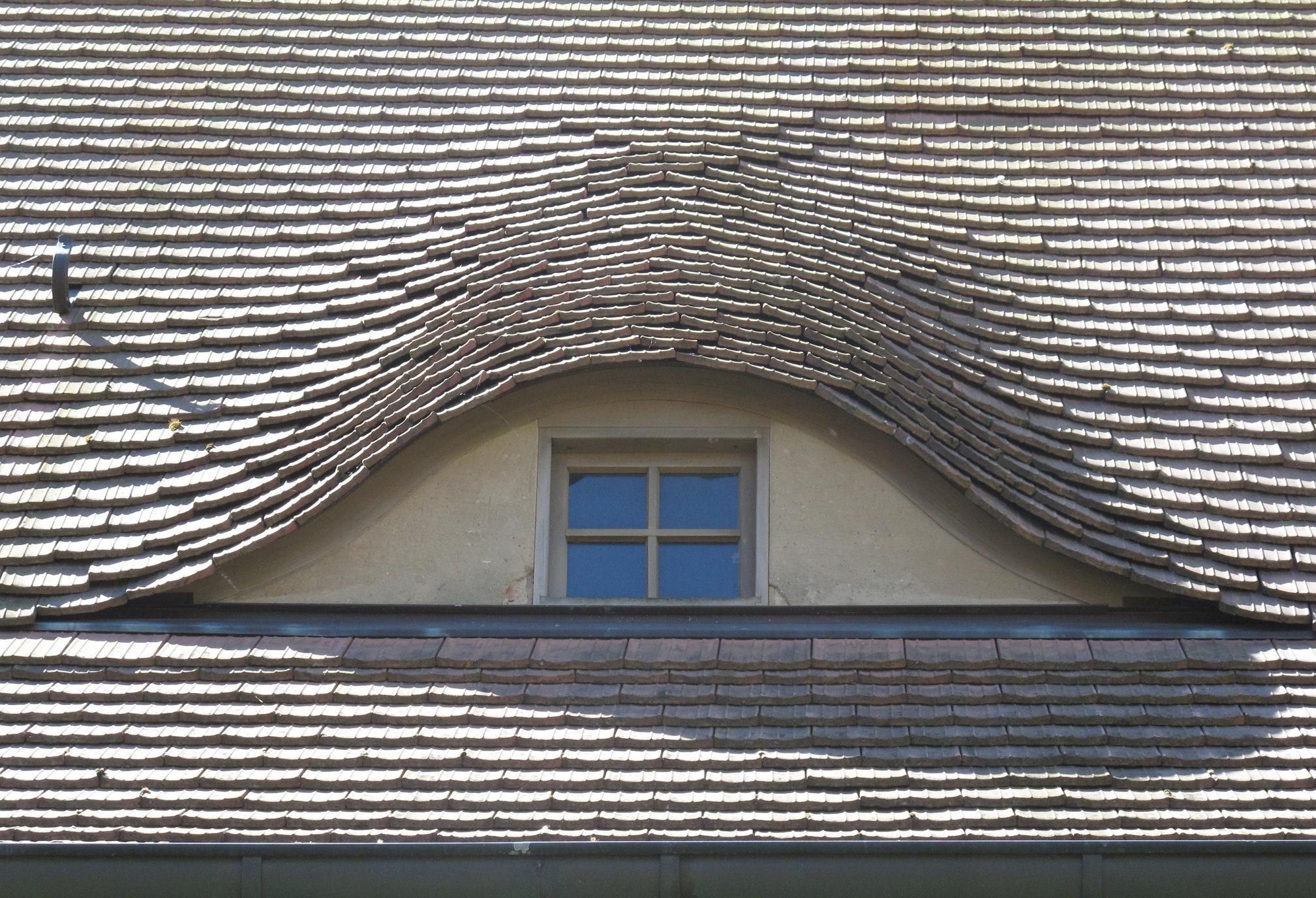 Dormer window of the Village church Wildenbruch. Listed Fieldstone church, built in the 13th century. The timber framed addition on the center of the west tower was built in 1737 and after modifications in the meantime1992 reconstructed according to the plans from 1737. Contrary to many different depictions it is no Fortified church (german: Wehrkirche). Wildenbruch is a part of Michendorf in the district Potsdam-Mittelmark, state Brandenburg, Germany.